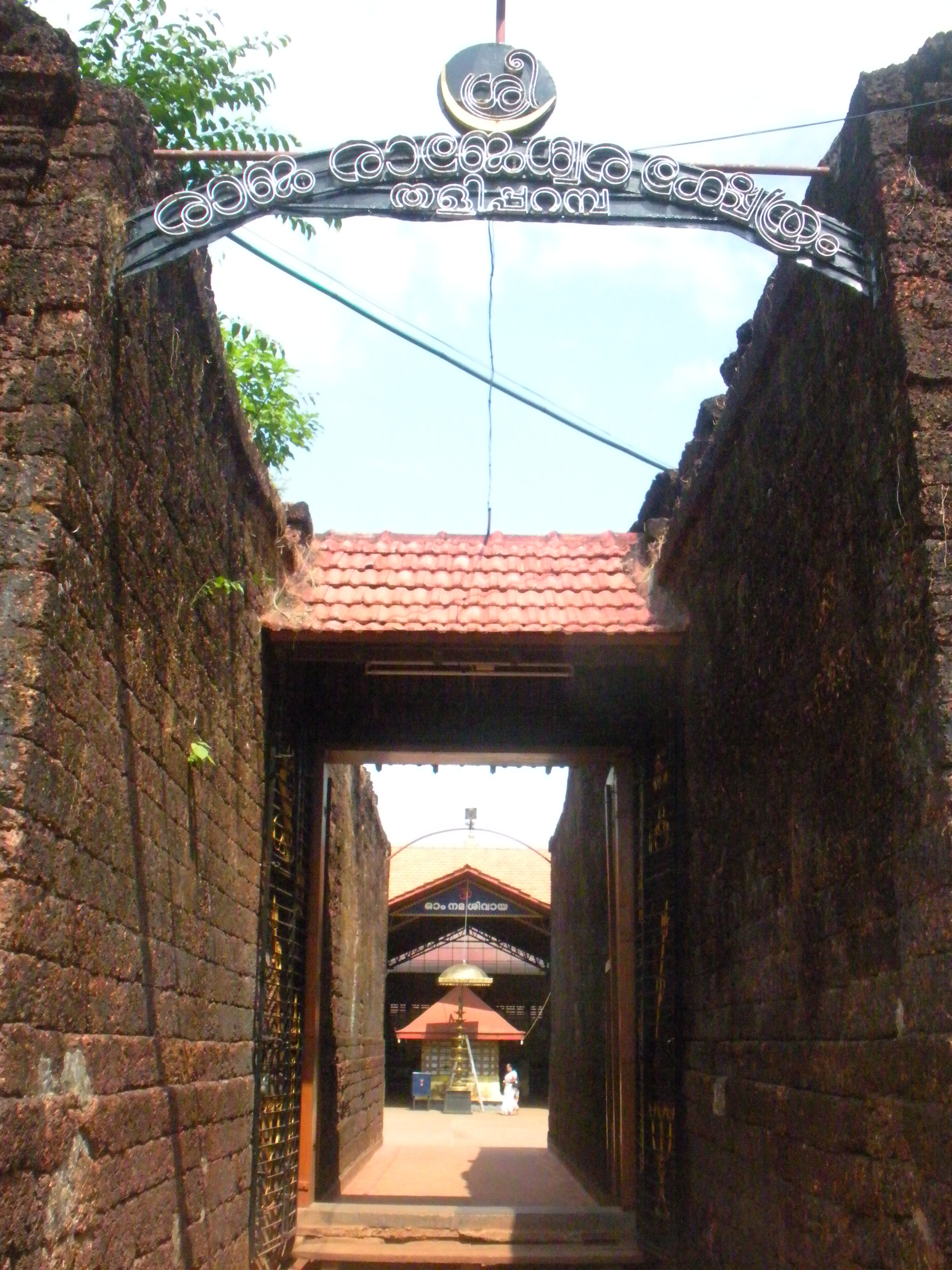 Thalipparamba Rajarajeshwara Temple gate